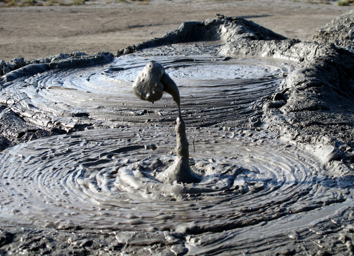 in Gobustan